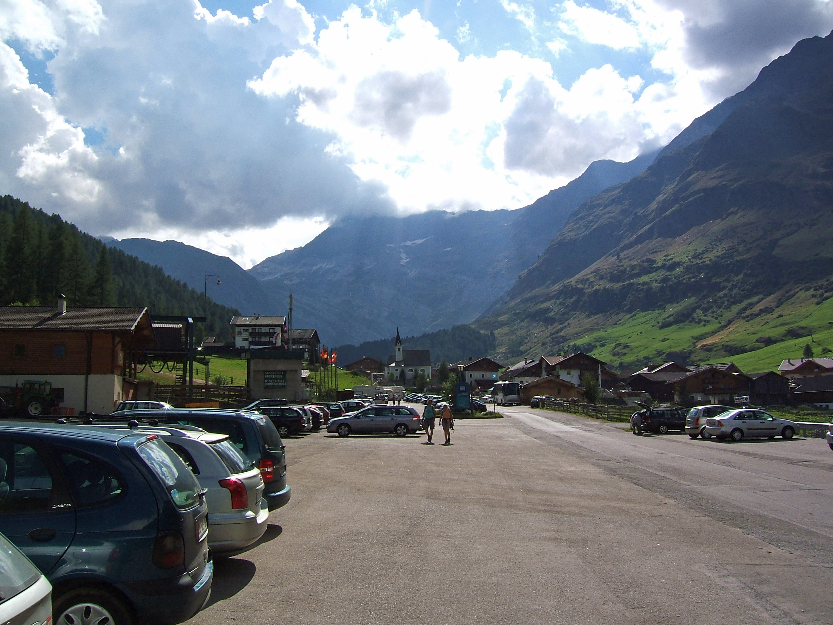 Pfelders, South Tyrol